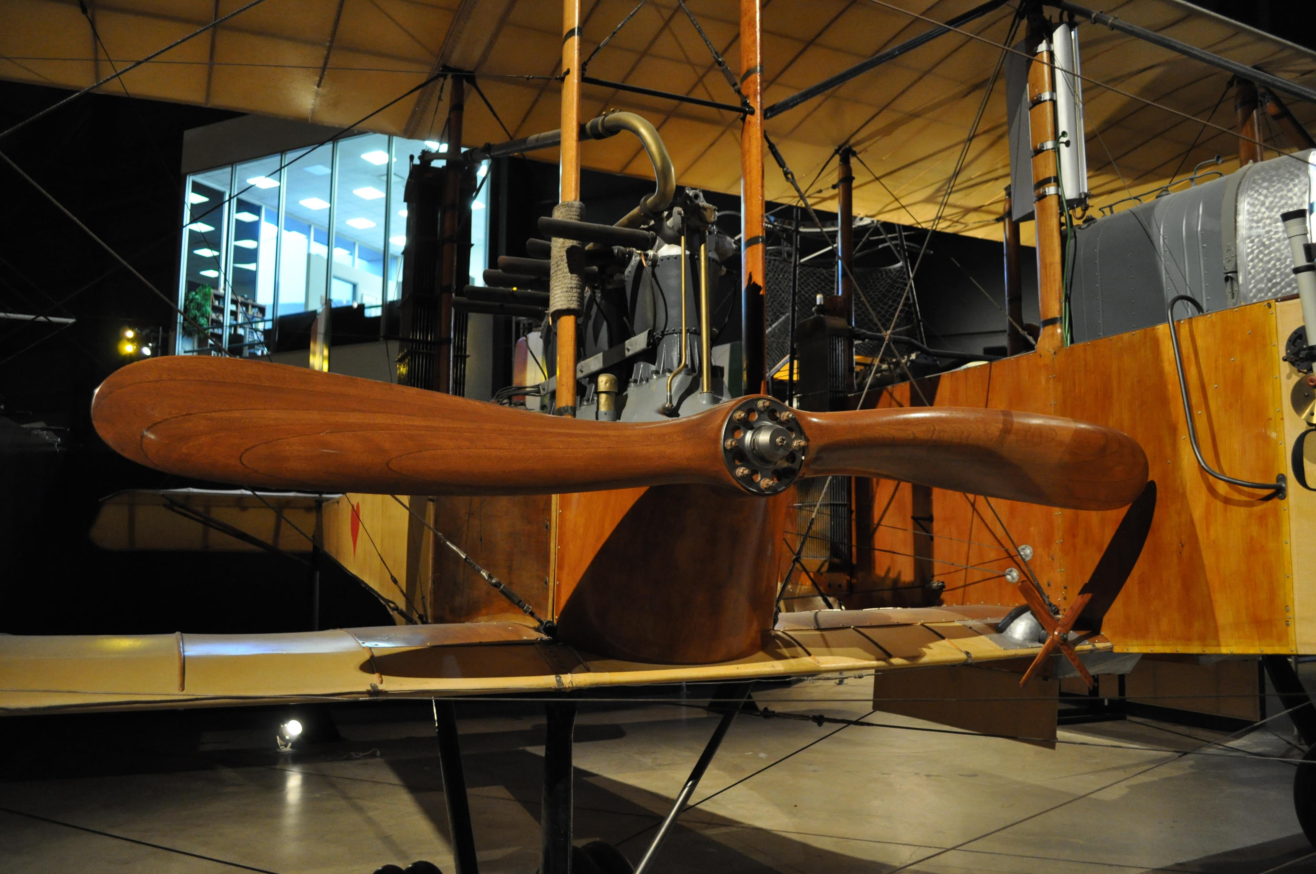 The Isotta-Fraschini V.4B 150 hp water-cooled, 6 cylinder of Caproni Ca.36 displayed at National Museum of the United States Air Force .